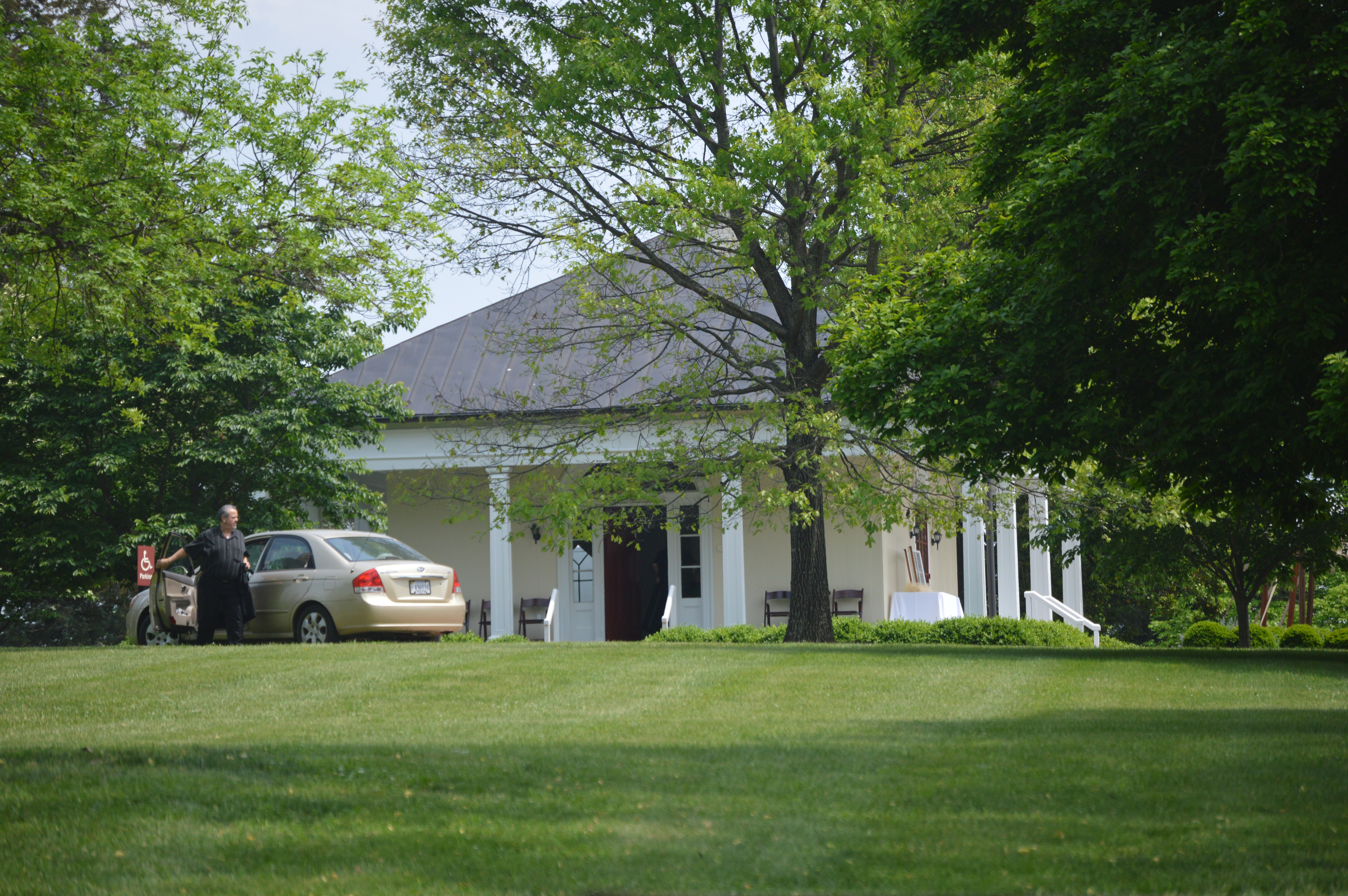 Front of Blenheim, located on Blenheim Road south of Charlottesville in Albemarle County, Virginia, United States. Built in 1846 for politician and diplomat Andrew Stevenson, it is listed on the National Register of Historic Places.